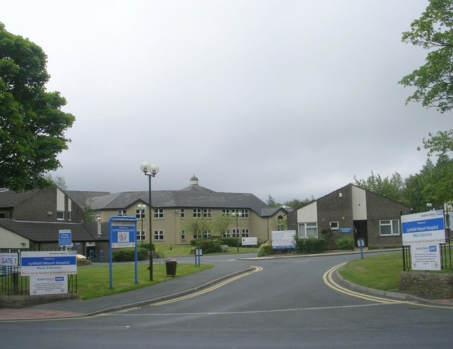 Entrance to Lynfield Mount Hospital - Daisy Hill Lane